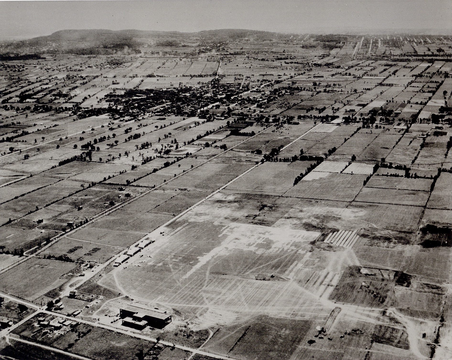 Cartierville Airport and the city of Saint-Laurent, Quebec. The Mont-Royal is in the background.